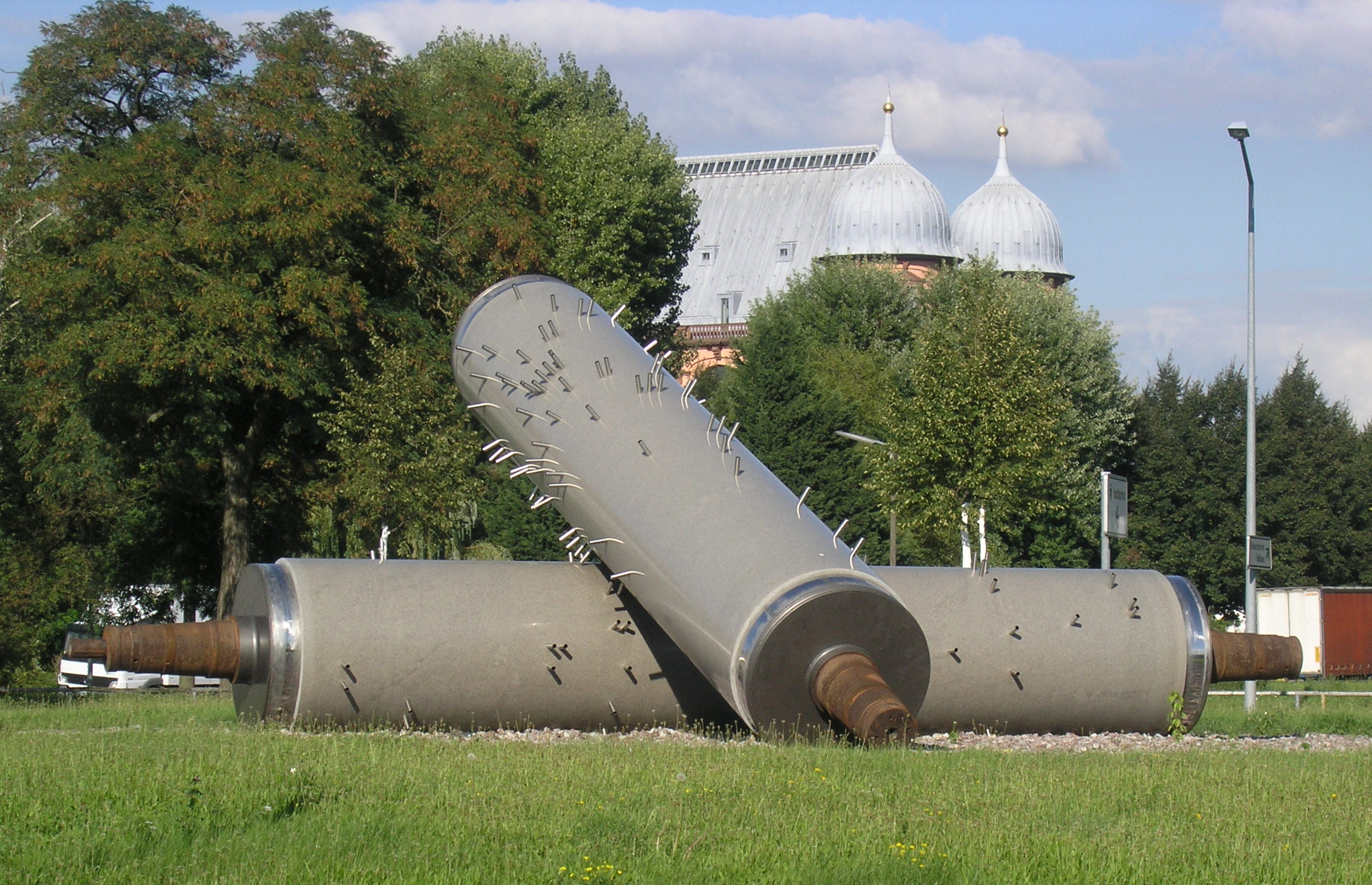 Sculpture Music rolls. Pin cylinders for a musical box, made of rolls of a paper machine. They represent the songs Die Gedanken sind frei and La Paloma. Today the sculpture is located in Waldkirch: Infotafel